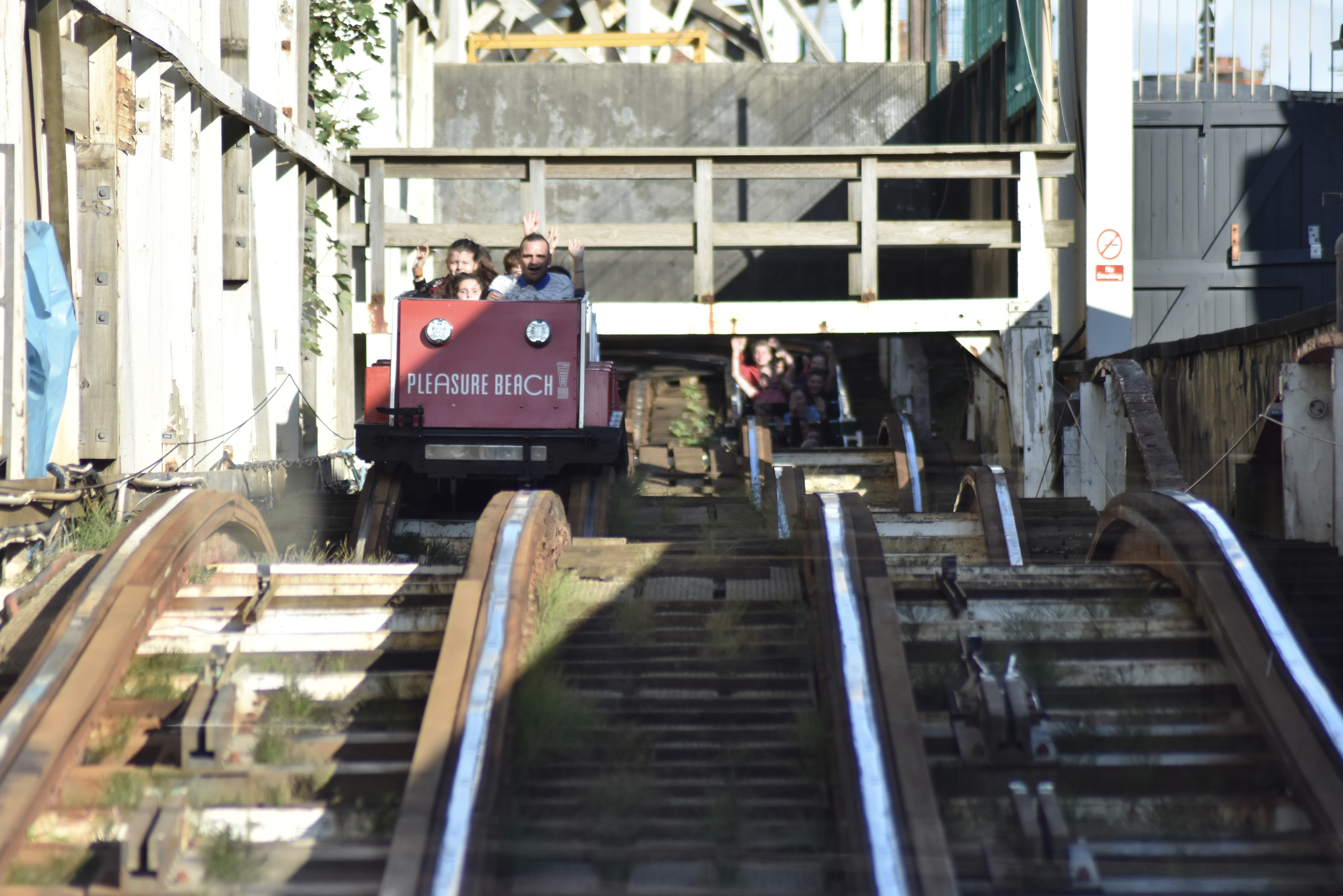 The consecutive finale camelbacks on 'The Grand National' at Blackpool Pleasure Beach